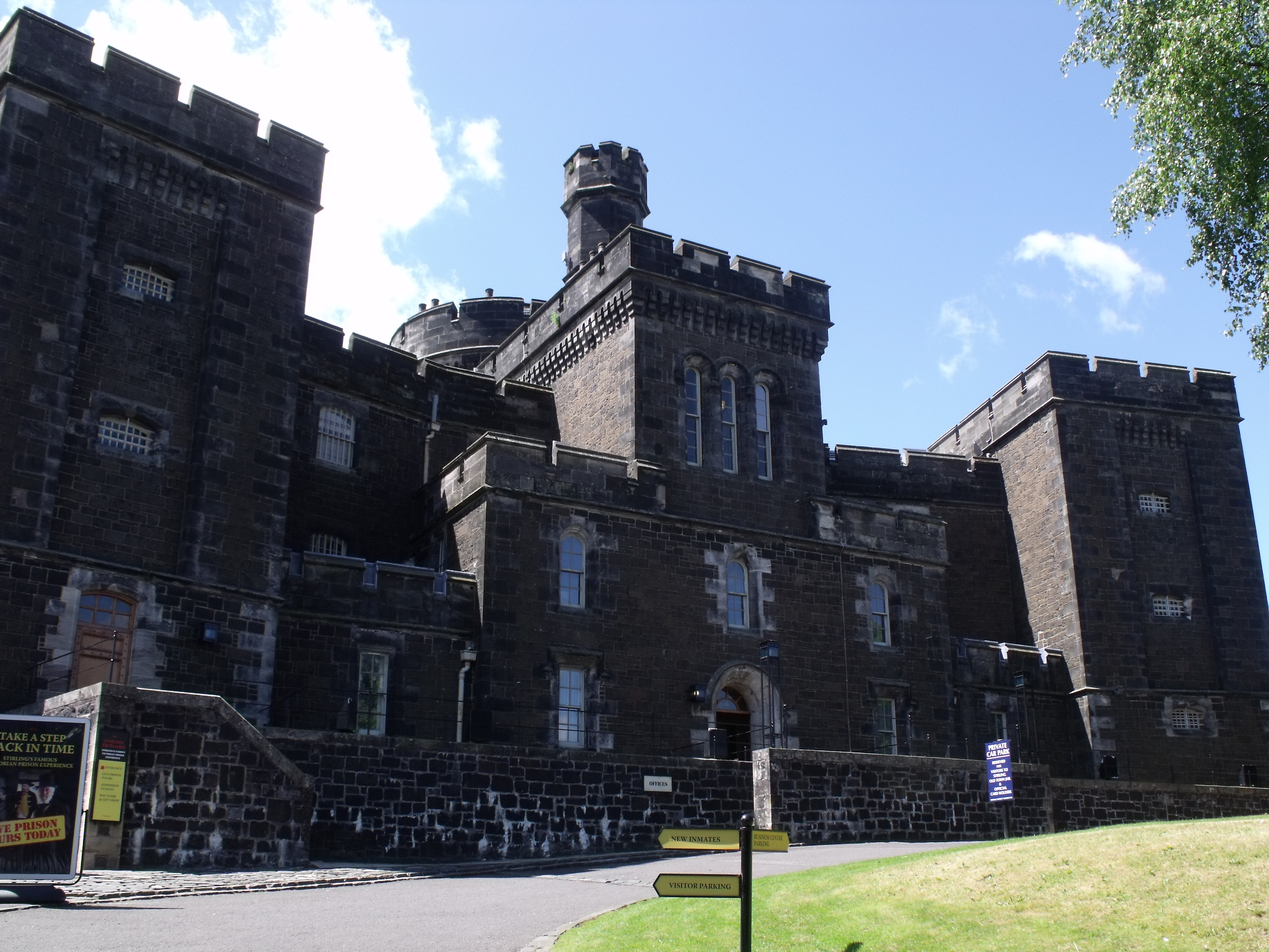 This is the front view of the prison building - the Old Town Jail was the new Stirling County Jail which opened in 1847 - and which was described as having a modern design. It relieved pressure on the nearby old Tolbooth Jail.